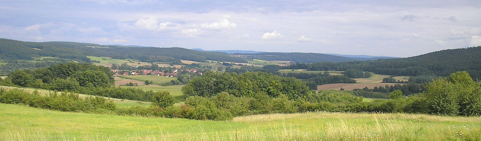 The Hassberge hills near Ebern (Landkreis Haßberge, Lower Franconia, Germany)